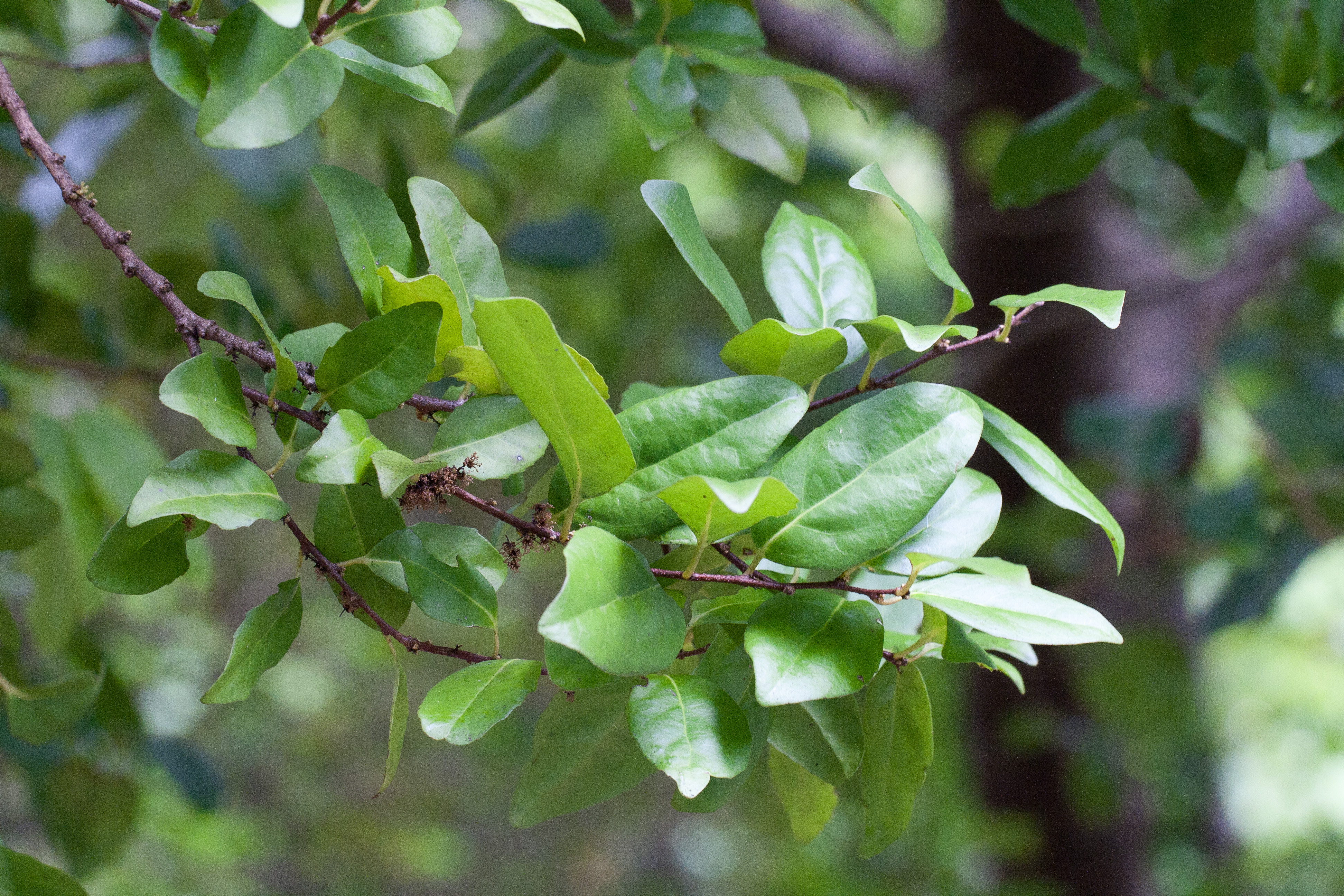 Xylosma maidenii branch